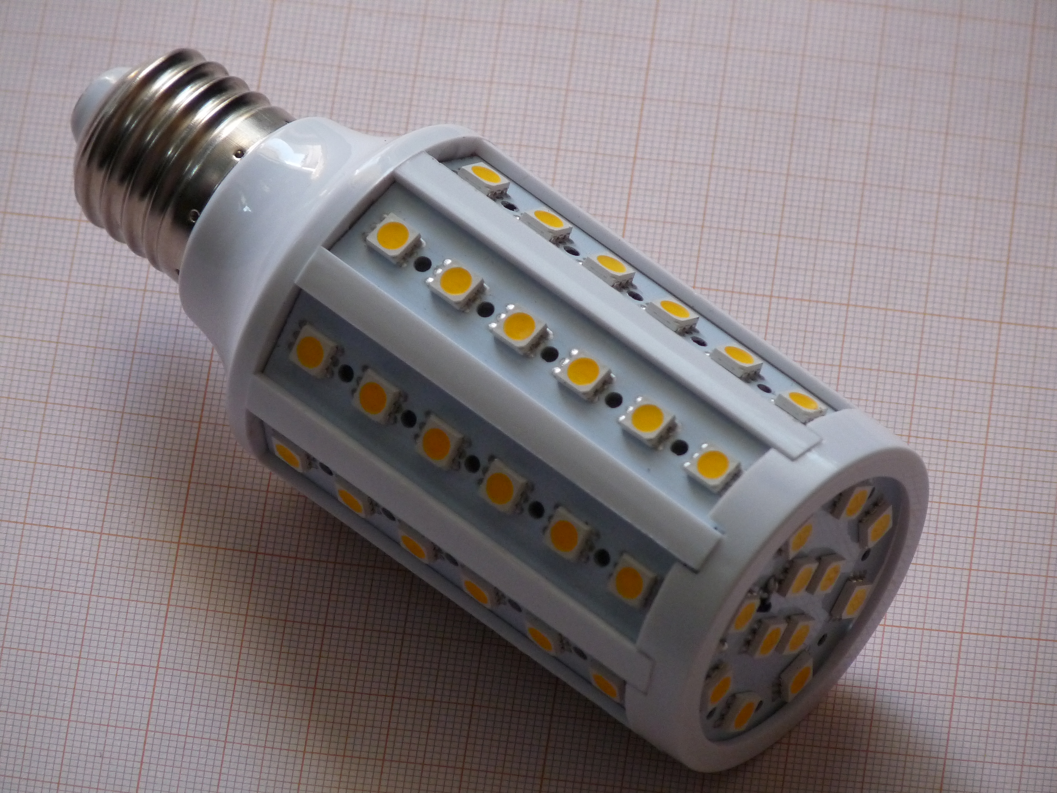 LED light bulb with E27 screw